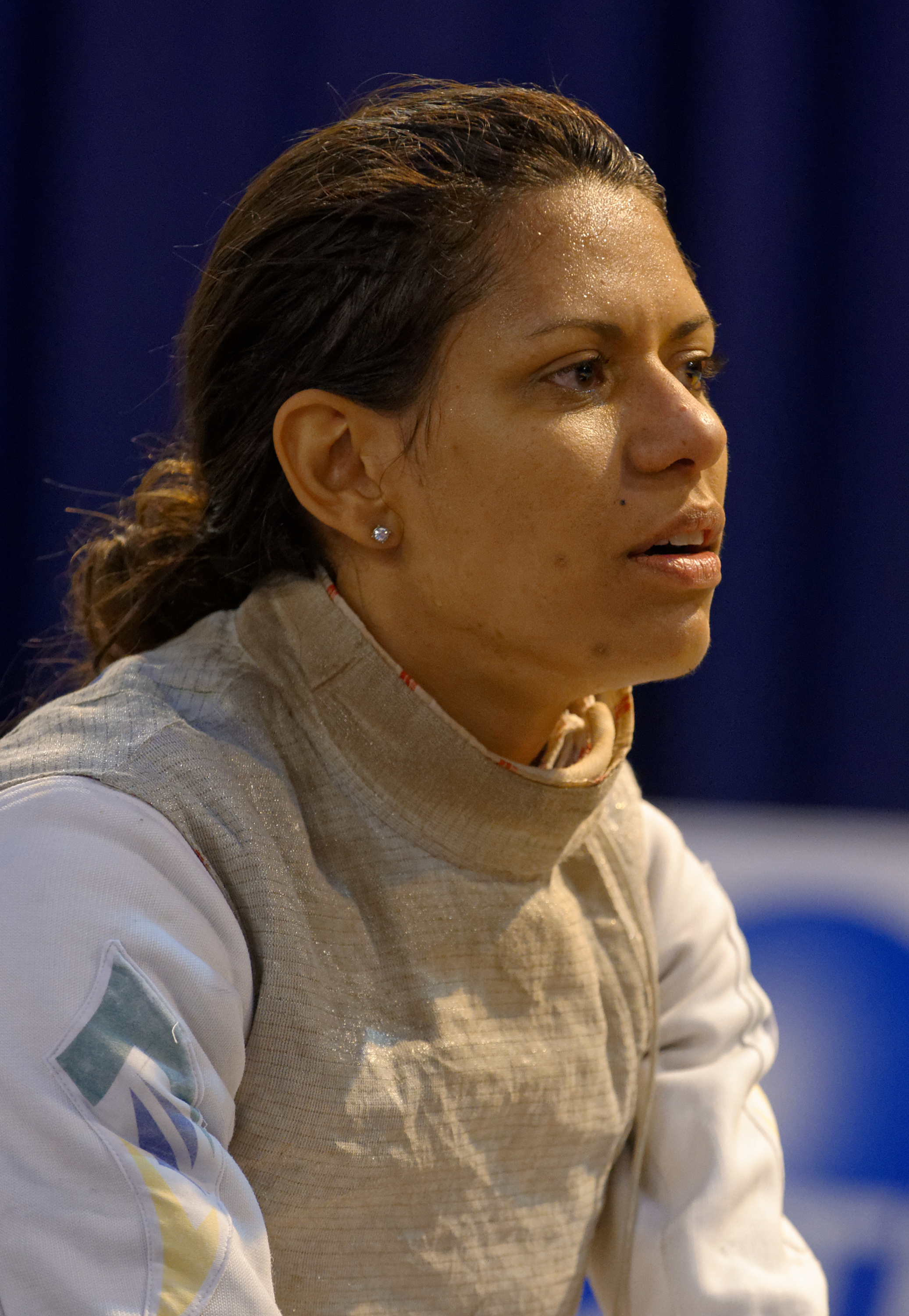 Brazil's Taís Rochel at team competition of the 2015 Saint-Maur women's foil World Cup.